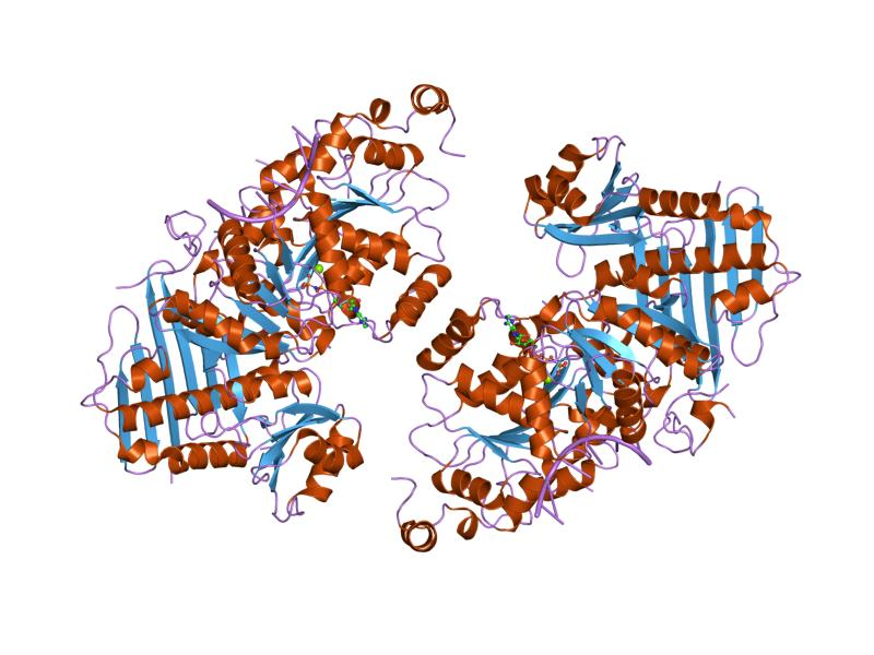 Cartoon representation of the molecular structure of protein registered with 2hyi code.